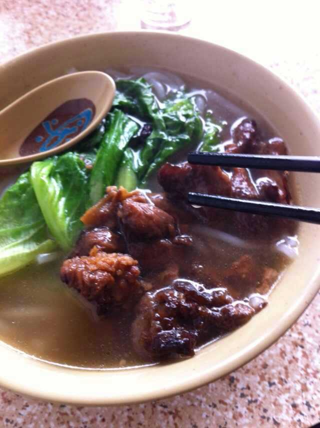 Bief Sanxiang noodle beaf